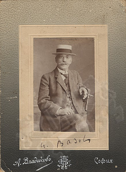 Ivan Vazov